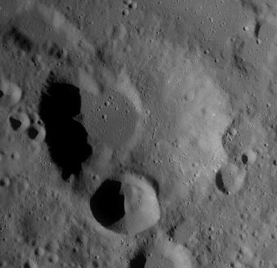 LROC image WAC No. M118540042ME.